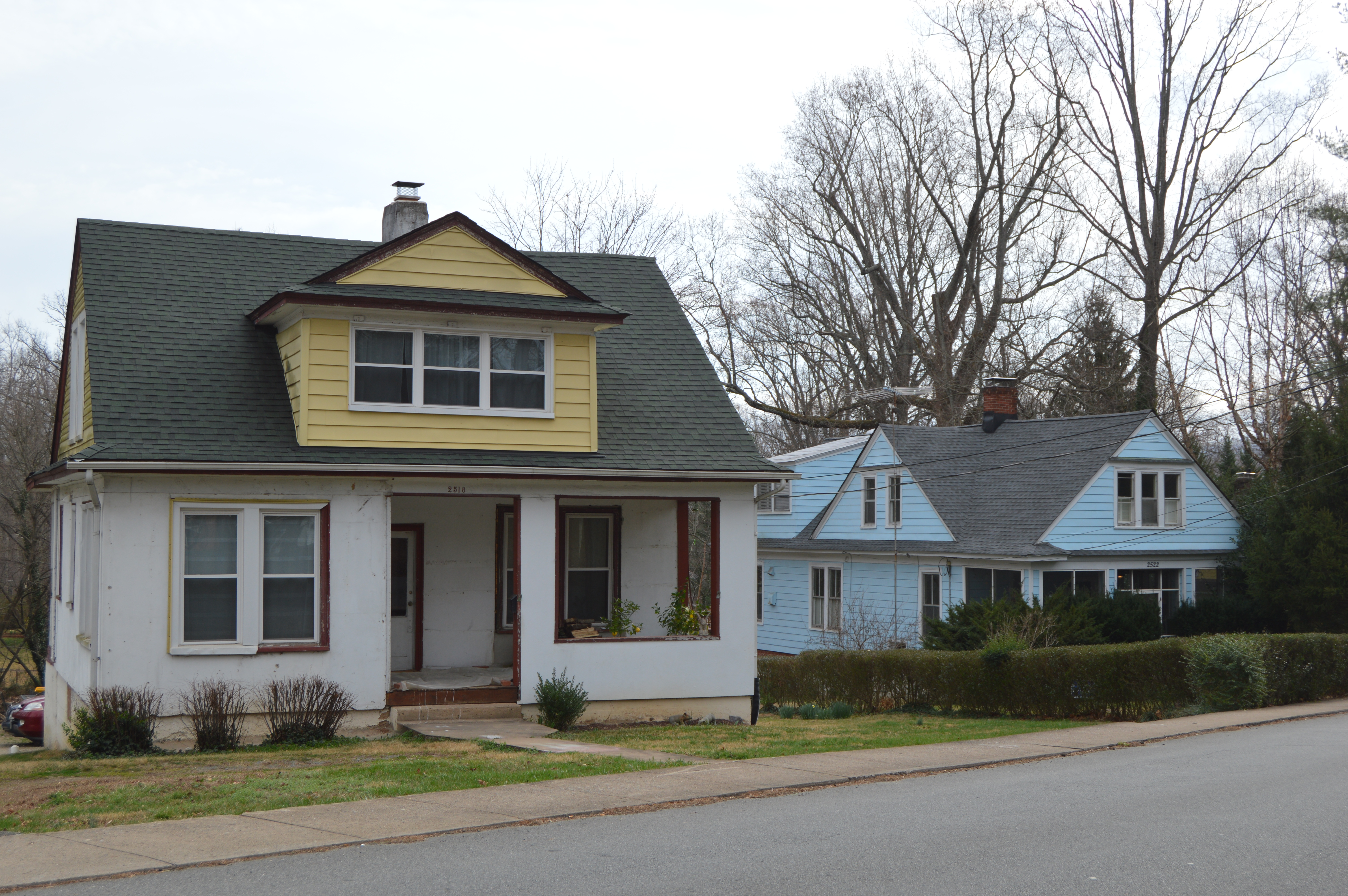 Houses on Jefferson Park Avenue, near the Park Road intersection, in Charlottesville, Virginia, United States. They are part of the Fry's Spring Historic District, a historic district that is listed on the National Register of Historic Places.